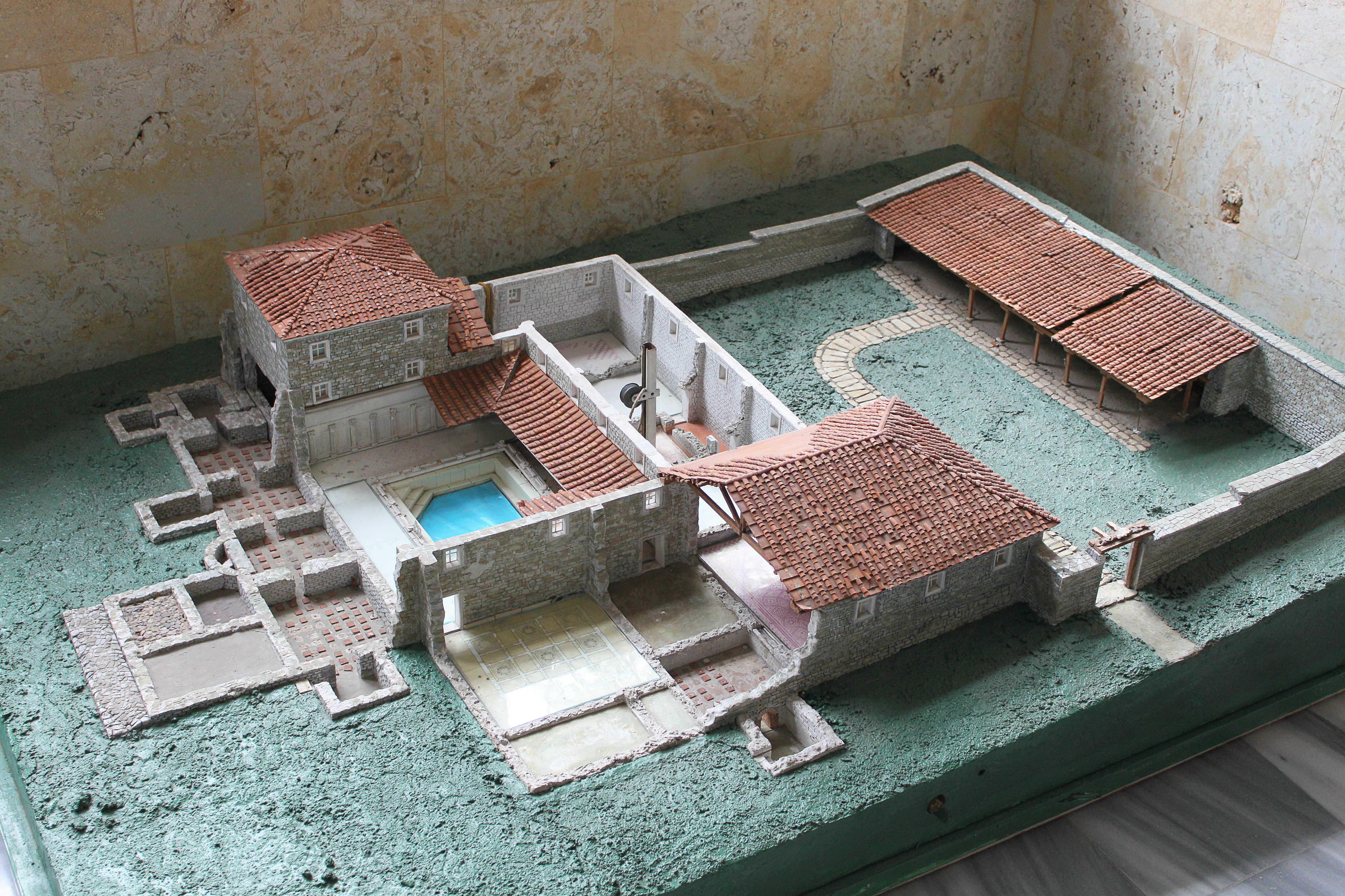 Historic Museum Ivailovgrad, Bulgaria